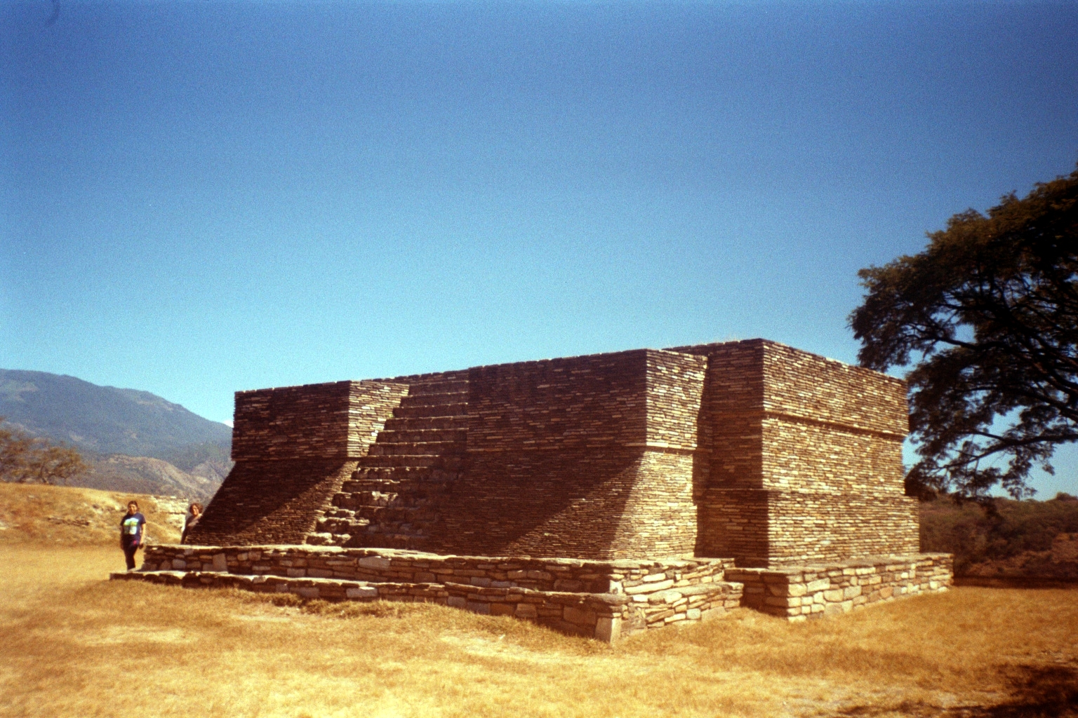 Structure D1 at Mixco Viejo, the ruins of the Chajoma capital, in Chimaltenango Department, Guatemala.